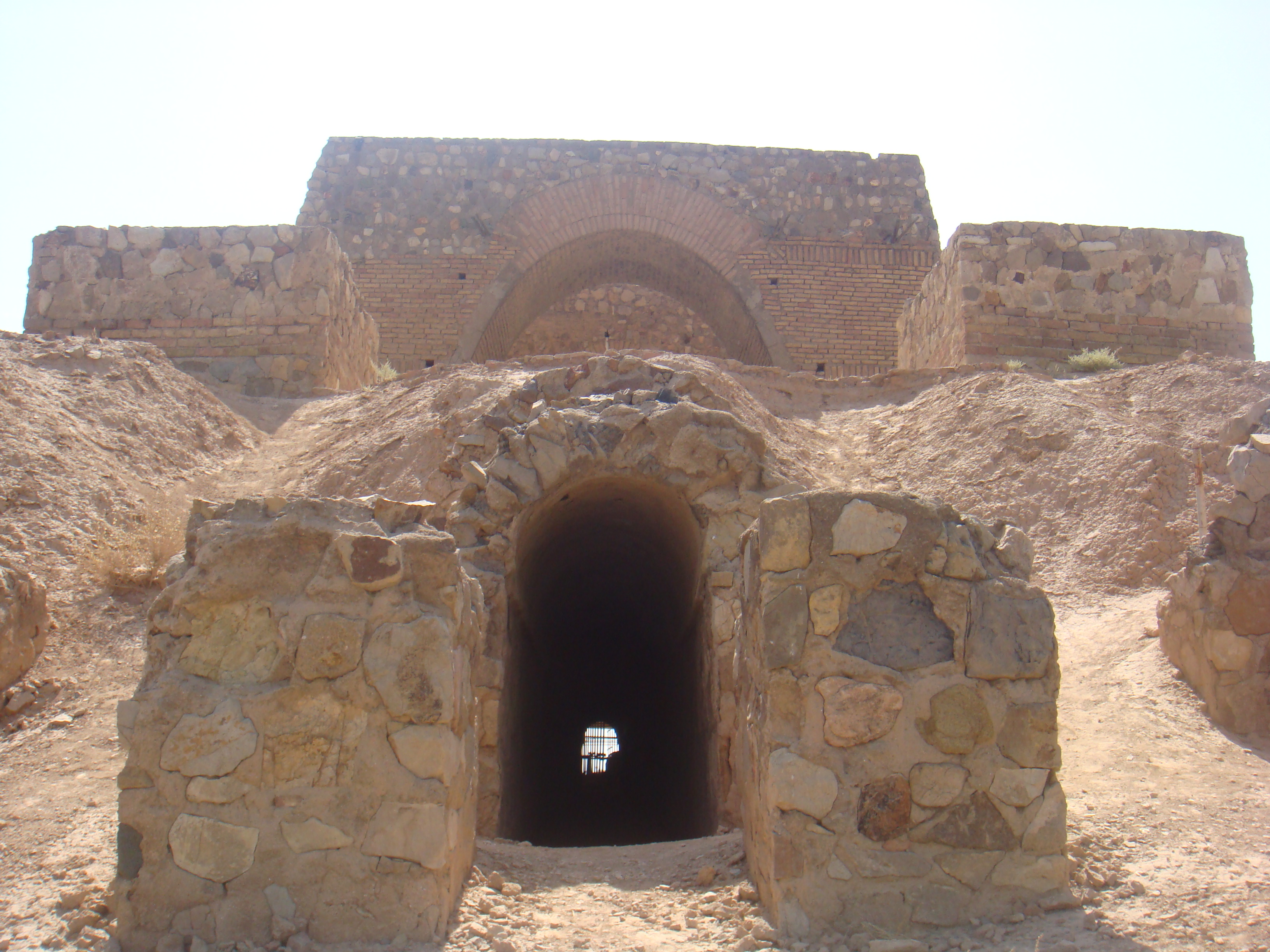 Bahram Fire Temple at Tappeh Mill in Ray near Tehran, view at temple and tunel from NW